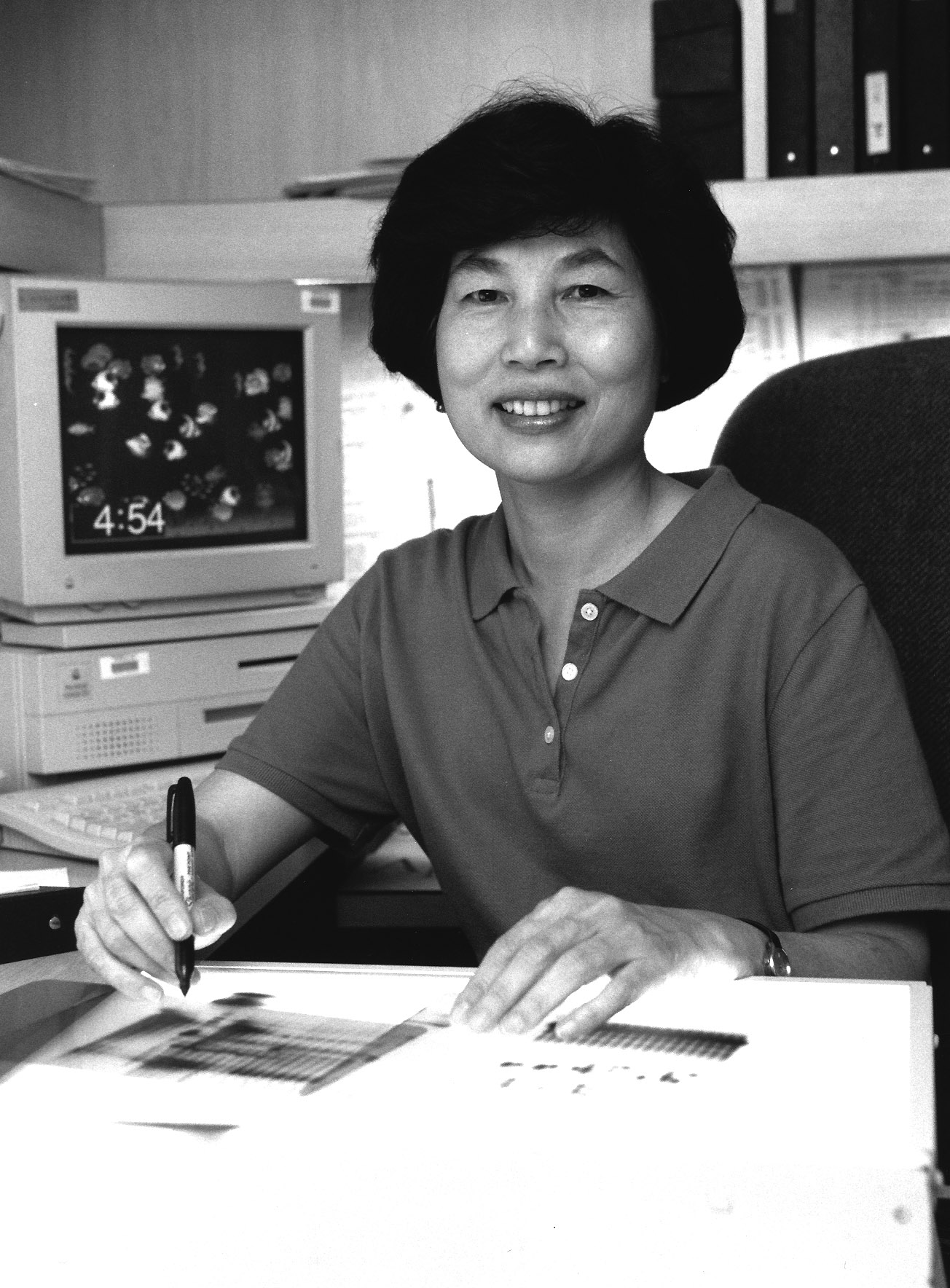 Title Cheng, Sheue-Yann Description Sheue-Yann Cheng, Head, Gene Regulation Section, Laboratory of Molecular Biology, Center for Cancer Research, National Cancer Institute. Topics/Categories National Cancer Institute, People Type B&W, Photo Source National Cancer Institute